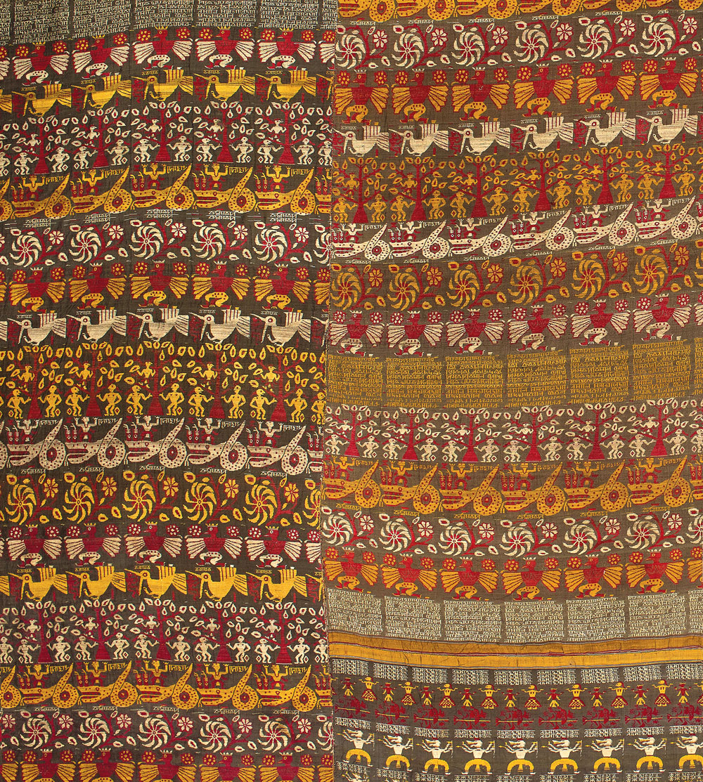 One such magnificent example, originally from Assam in northeastern India and known as the Vrindavani Vastra (the Cloth of Vrindavan), features in the current exhibition ‘Krishna in the Garden of Assam: the Cultural Context of an Indian Textile’ (until 15 August 2016) at the British Museum. Given by Landon to the museum in 1905, it is made of woven silk and is now believed to be of late 17th century date, though when it was found no one ventured any date for it. Further, we now know it to be from Assam, though when acquired by the museum it was assumed to be Tibetan – despite the many identificatory captions and, in one area, an eleven-line verse repeatedly woven into it, in Assamese characters. More than nine metres in length today, this extraordinary textile is made up of twelve separate strips of cloth, each about 80 cm wide, that are now stitched together. This assembly almost certainly happened when the strips were taken to, and re-used in southern Tibet – they ended up in the Monastery of Gobshi near Gyantse. At that time, lengths of brocade and damask were added along the top of the cloth and above this, metal hanging rings attached.